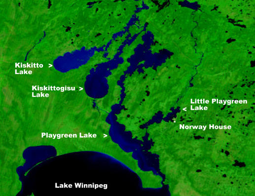 Portion of NASA map showing Playgreen Lake in Manitoba (Captions have been added by Kayoty)